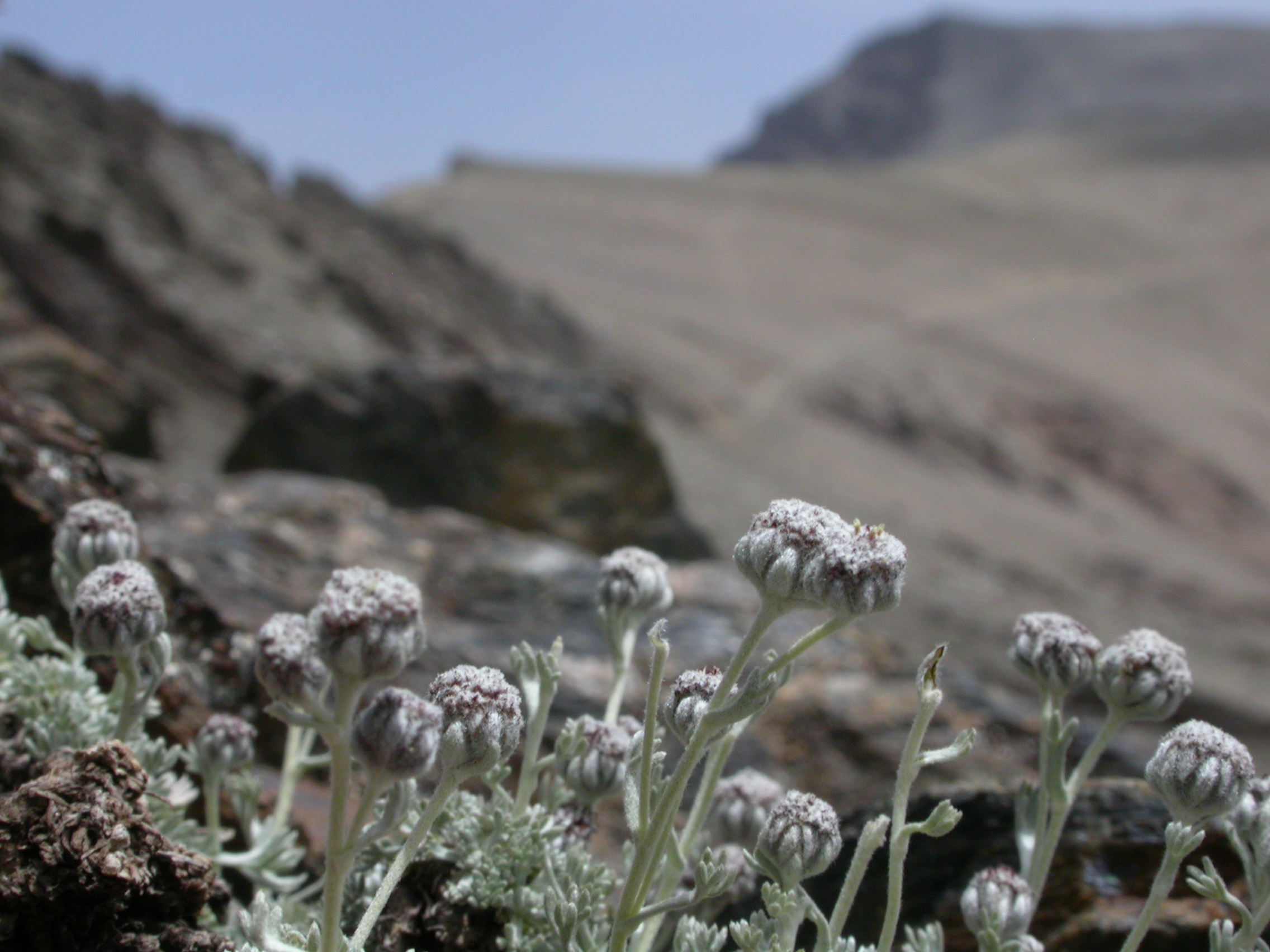 Artemisia granatensis